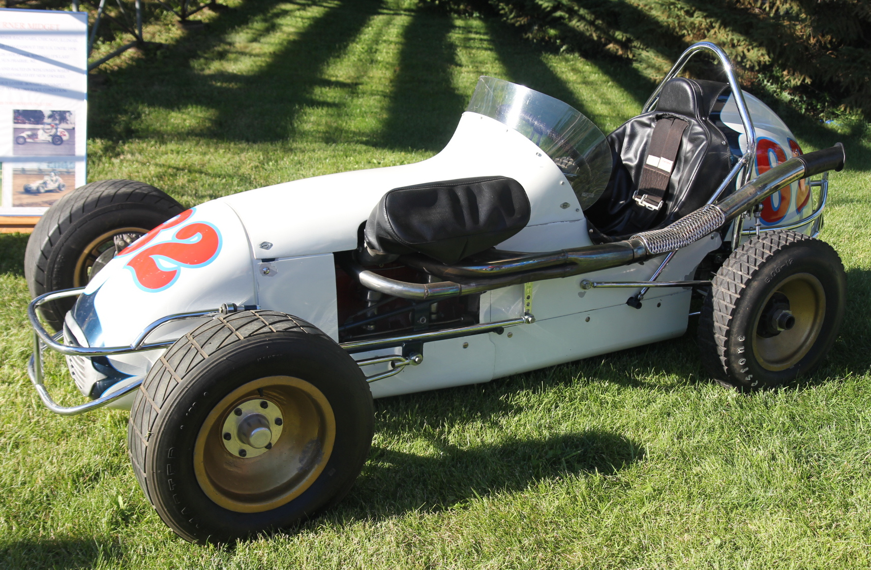 A Harry Turner built midget on display at Angell Park Speedway. The car was raced into the 1980's then restored to its 1969 condition.